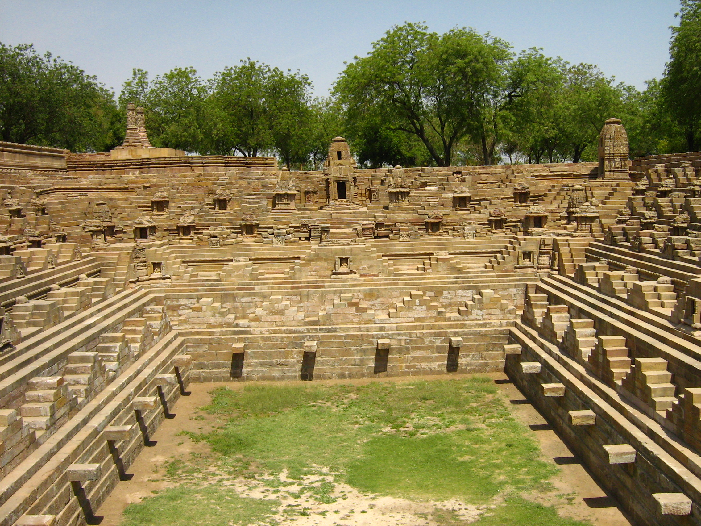 Location : Surya Kund (Tank) at Sun Temple, Modhera.